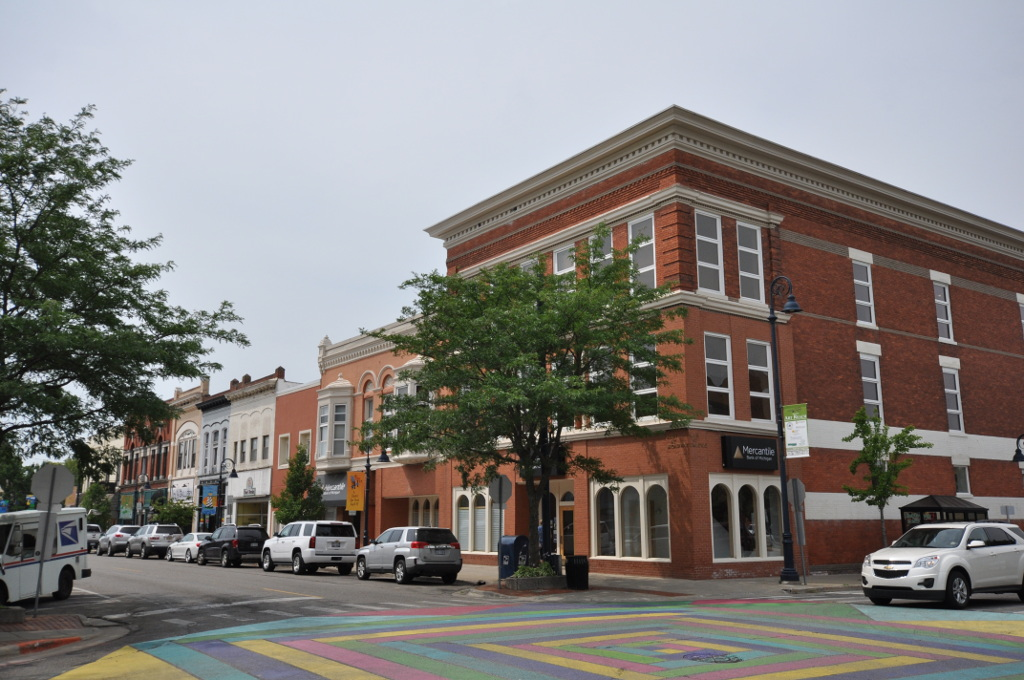 Mount Pleasant Downtown Historic District, Mount Pleasant, Michigan.